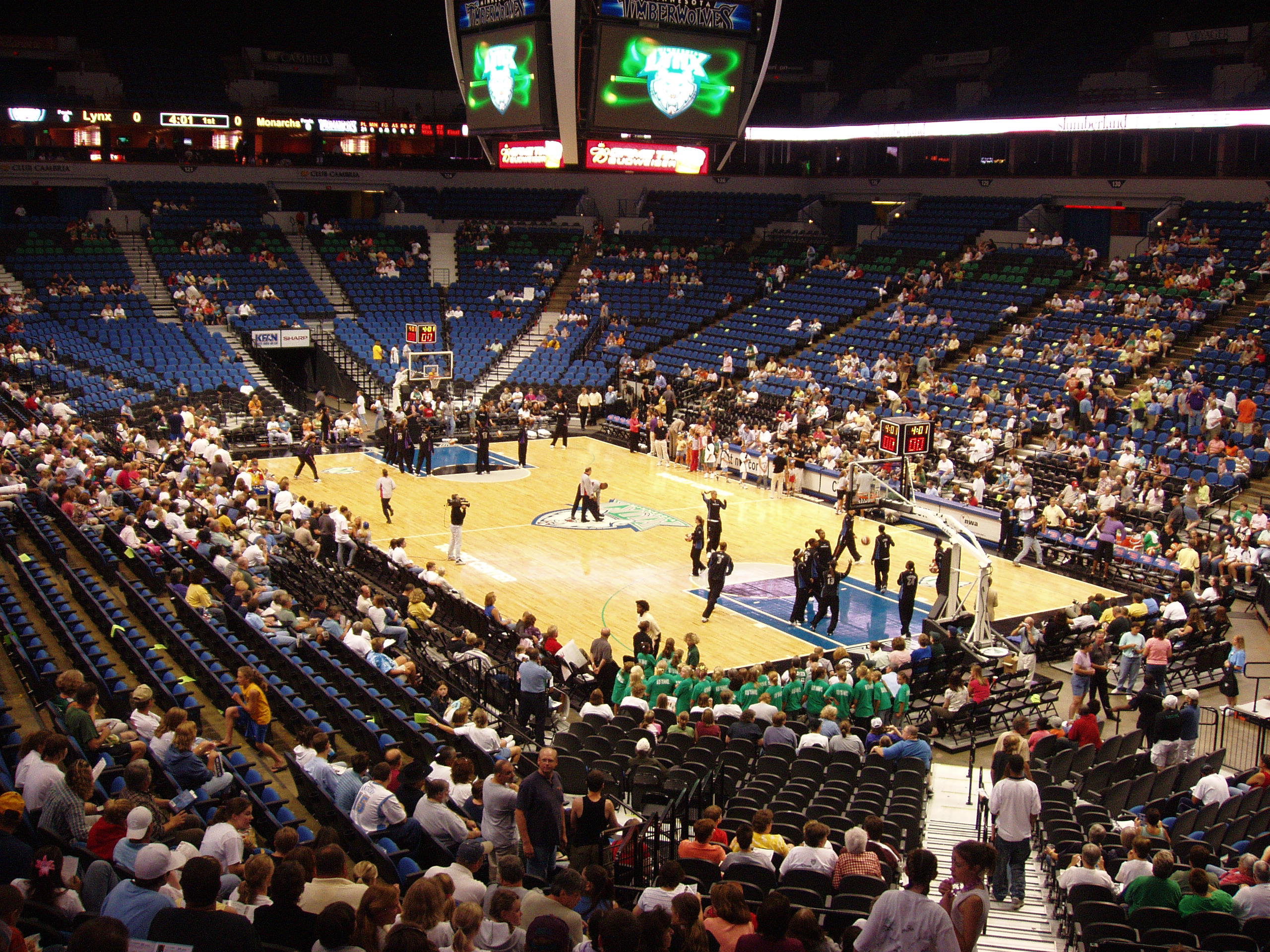 This photo was taken by user dlz28 and is released into the public domain.